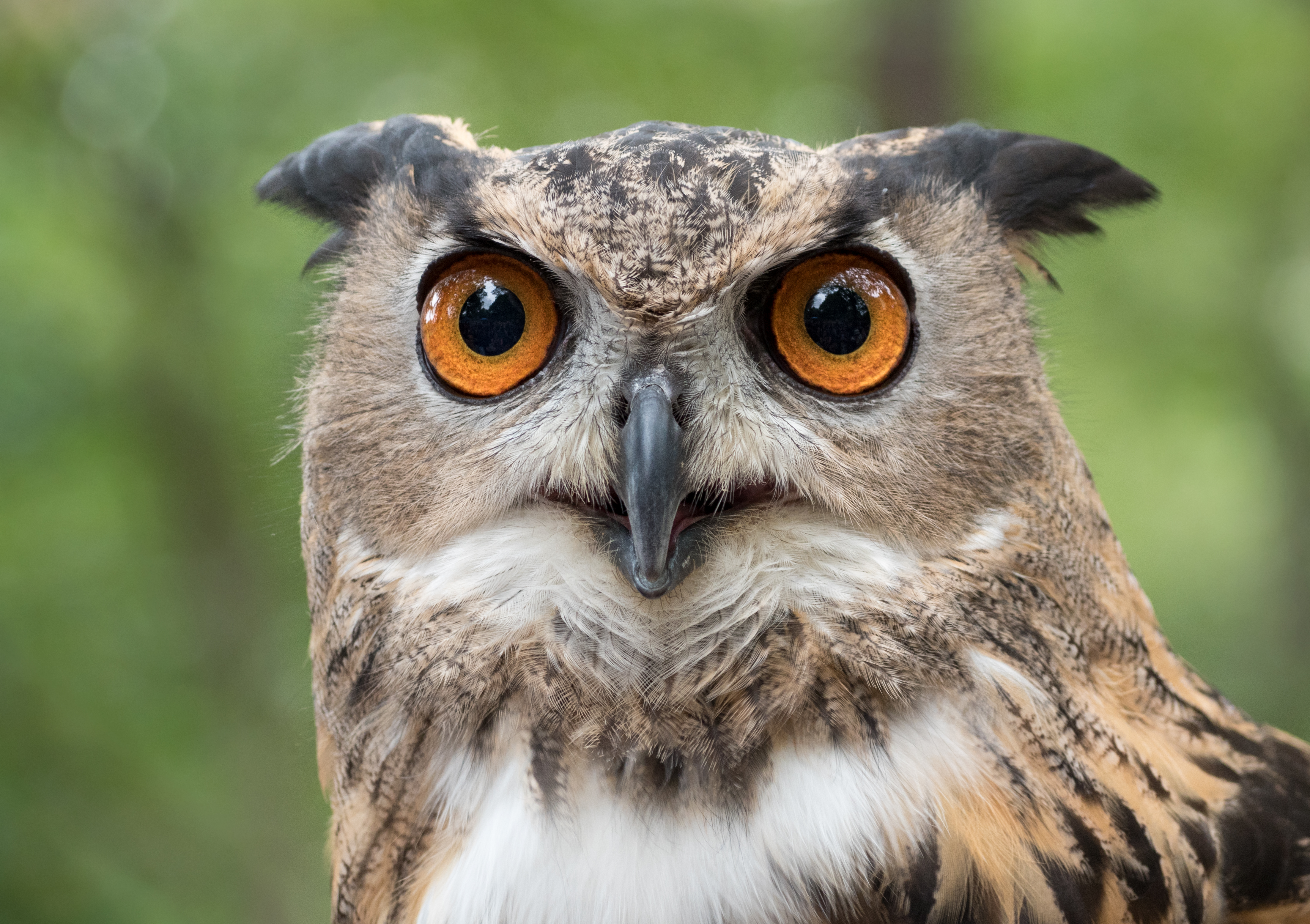 A rehabilitated Eurasian eagle-owl at Raptor Fest, a wildlife conservation event held by NYC Parks in Central Park. The "ambassador" birds are all rehabilitated animals that cannot be released into the wild.